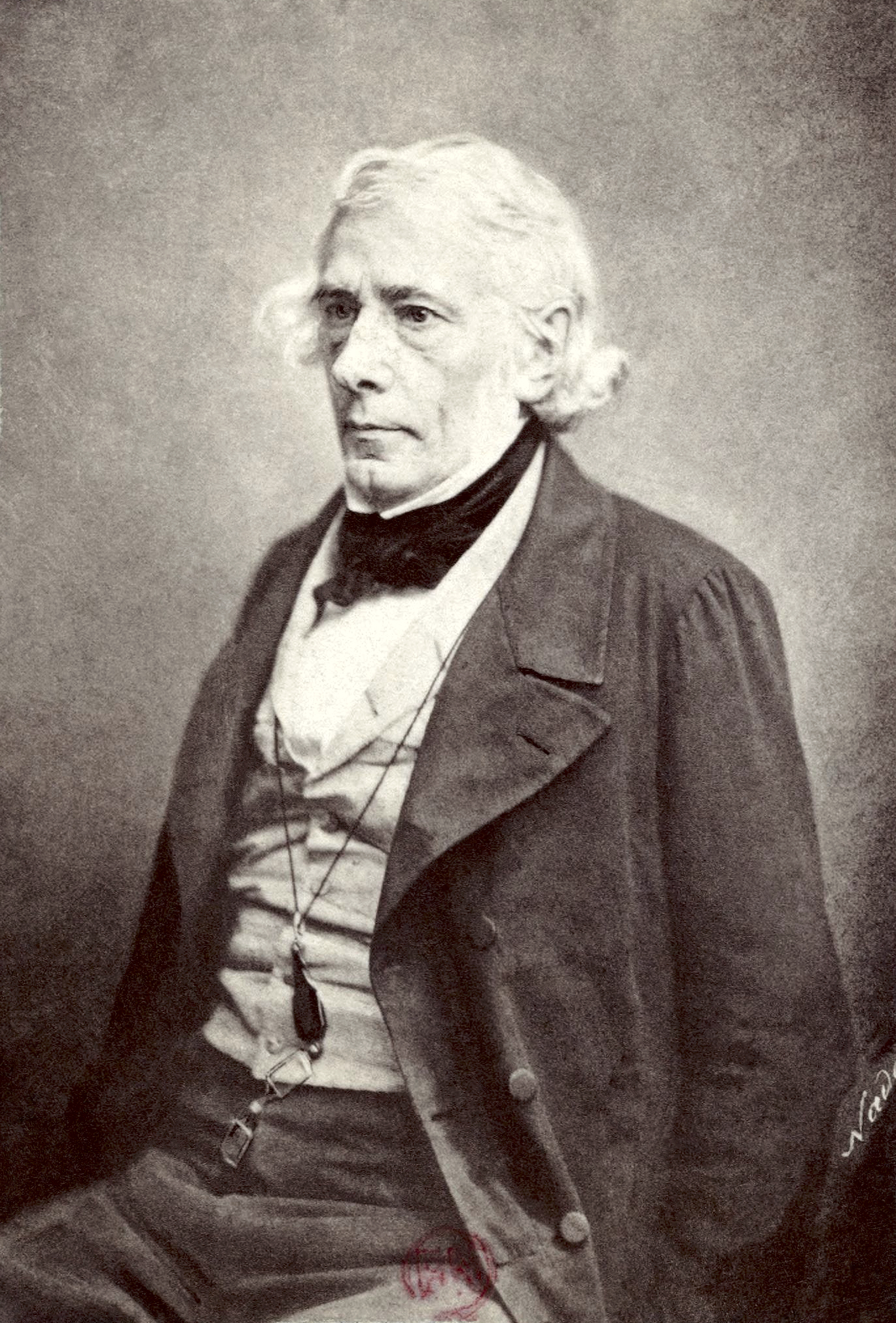 Portrait of Victor Cousin